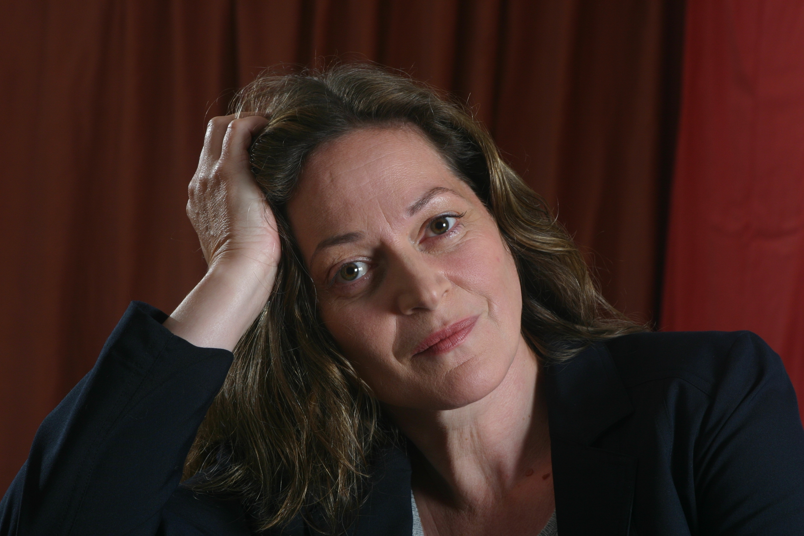 Bettina Fless 2006